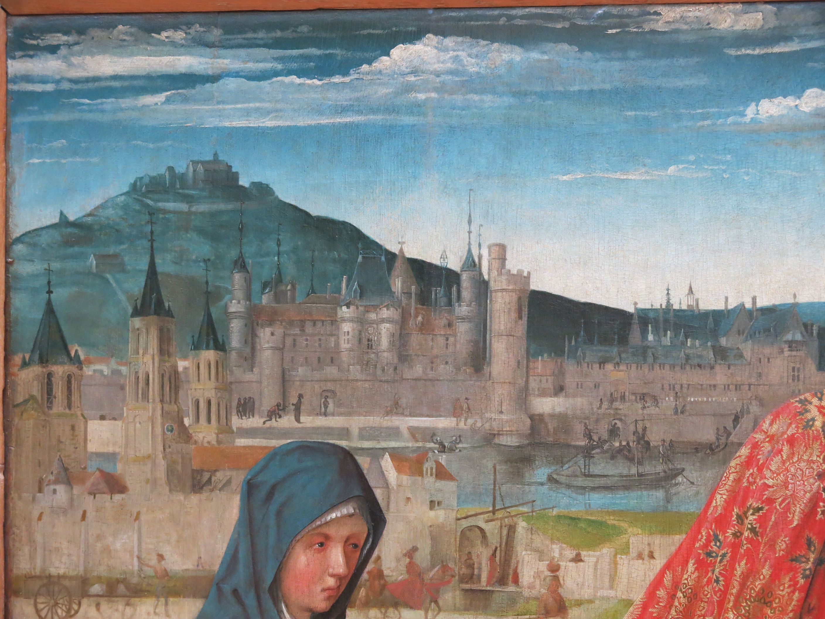 Louvre castle and Montmartre hill on the painting Pieta de Saint-Germain-des-Près. Louvre (Paris, France).